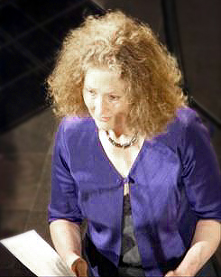 British singer Emma Kirkby photographed in July 2007.